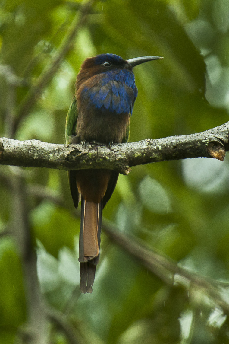 Purple-bearded Bee-eater - Sulawesi_MG_5287